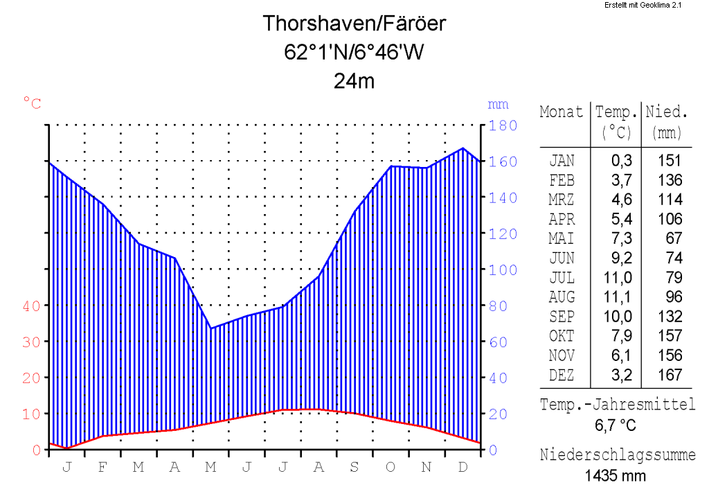 climate chart in the format by Walter and Lieth, metric, °Celsisus and millimeters, made with Geoklima 2.1